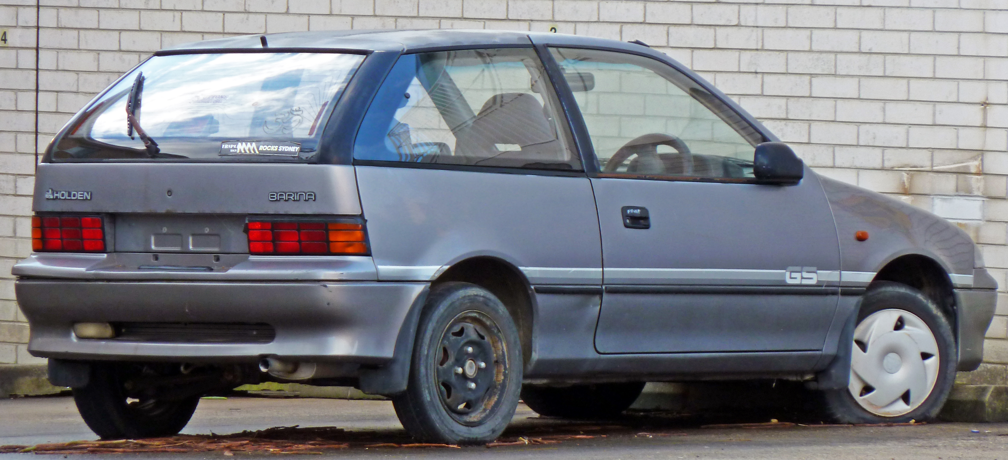 1990–1991 Holden Barina (MF) GS 3-door hatchback. Photographed in Cronulla, New South Wales, Australia.